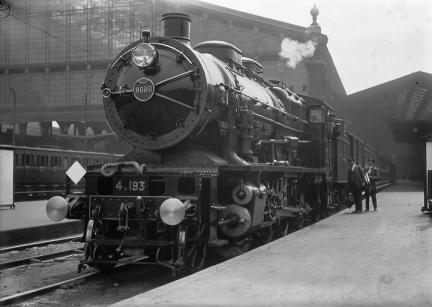 Nord Railway 2-8-0 No.4.193, from series 4.061 – 4.340, later SNCF class 140.A